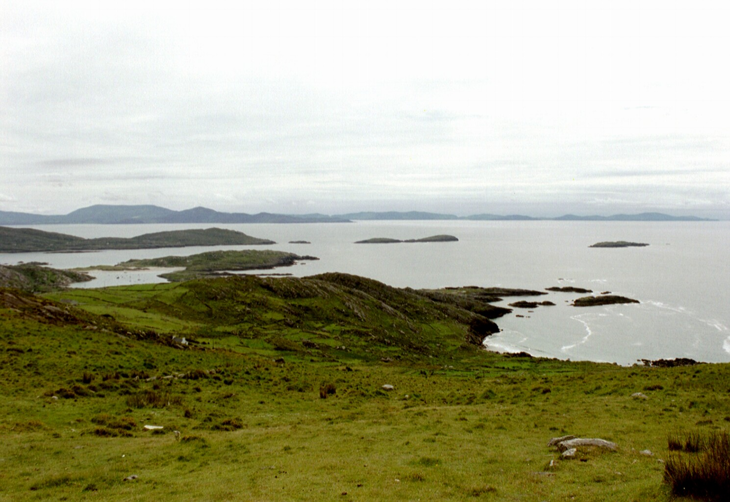 Ring of Kerry Picture taken by Matteo Corti in August 2002.